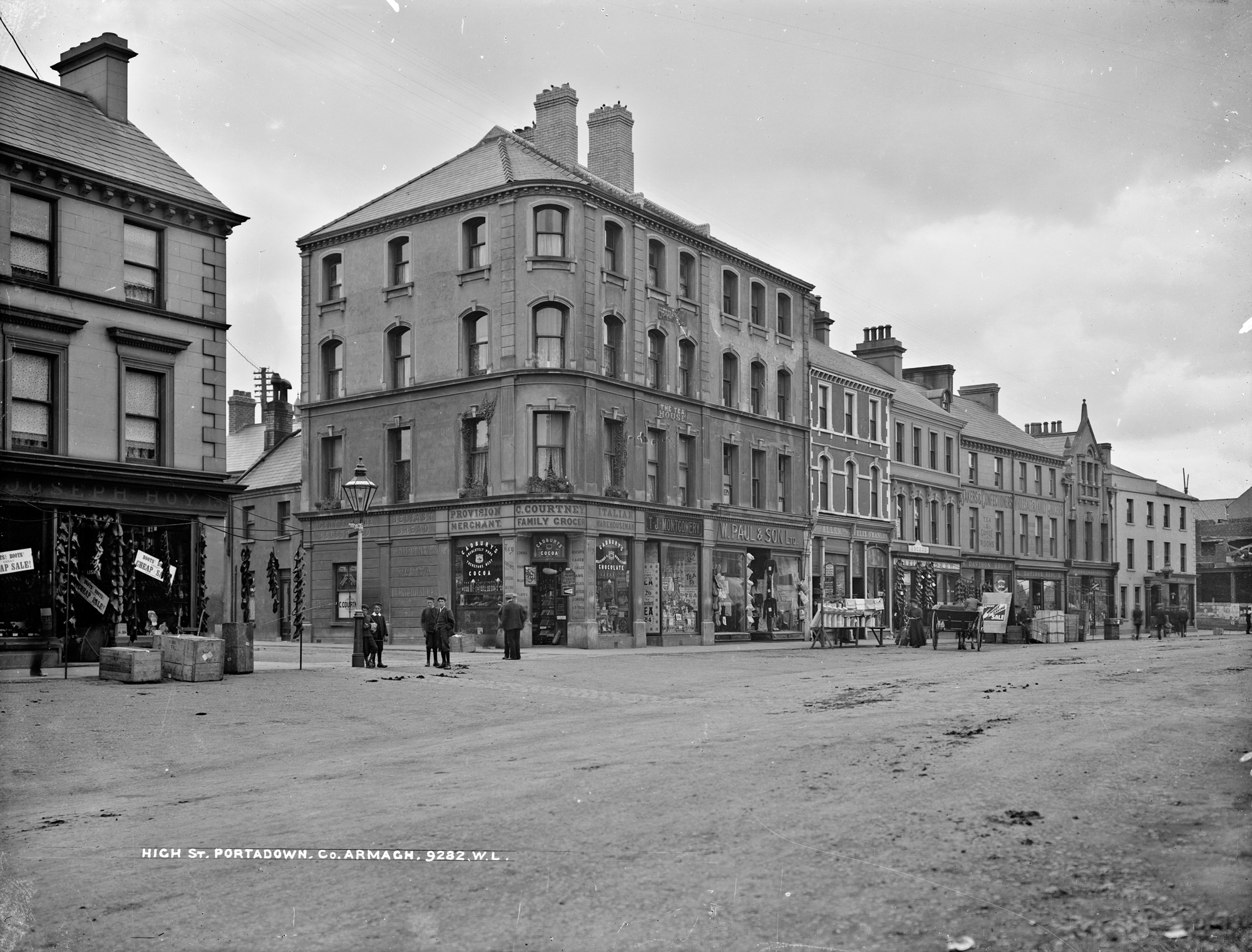 Up to the "wee North" today with a fine Lawrence shot of High Street in Portadown. A fine broad street, big well-built premises, gas lamps, and horse apples in abundance - all might mean this was late 1800s...? ....Or perhaps not the late 1800s after-all. Thanks to today's contributions (and the high-res megazoom version) the community's eagle-eyes spotted an apparently dated shop-window display suggesting a date of 1906. [/photos/gnmcauley/ Niall McAuley]'s census and street-directory investigations would seem to corroberate this - as Hoy's boot-sellers (far left) seem to have left Portadown sometime between 1901 and 1910. Perhaps the "cheap boots sale" we see advertised was actually a closing/relocation sale? Courtney (the "Italian Warehouseman"?) seems to have been around for a few years after this image. And is it no wonder he did a busy trade, given that (as advertised) he always had "pickles in stock"! :) Photographer: Robert French Collection: Lawrence Photograph Collection Date: Catalogue range c.1865-1914. Possibly c.1906 NLI Ref: L_ROY_09282 You can also view this image, and many thousands of others, on the NLI’s catalogue at